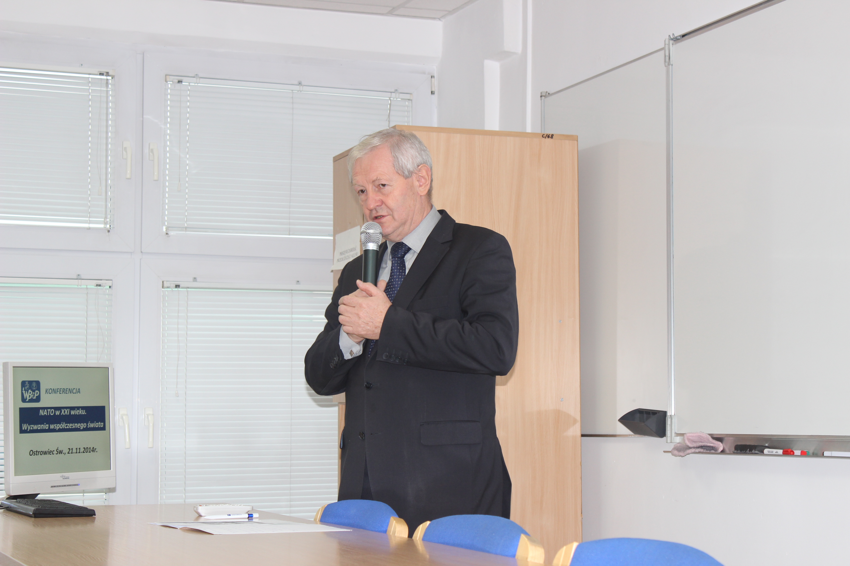 Polish general Andrzej Pietrzyk